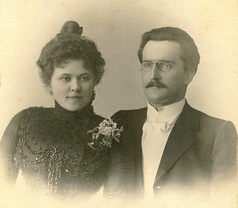 Józef Plośko and his wife Sabina Vladislavovna Plosko in Baku.